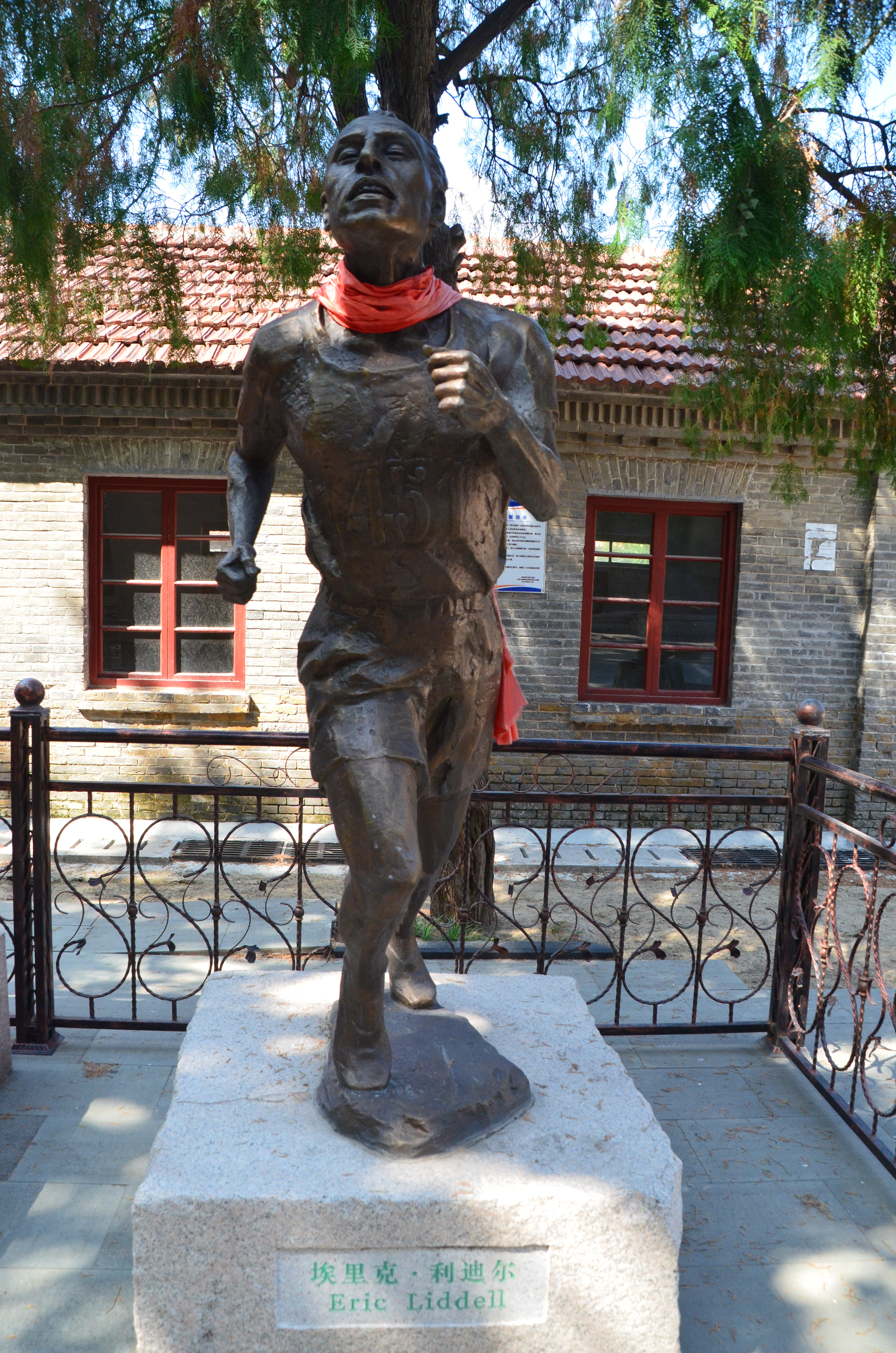 Eric Liddell Weixian Internment Camp statue in front of camp museum (back of hospital) near 广文中学 which also has a museum